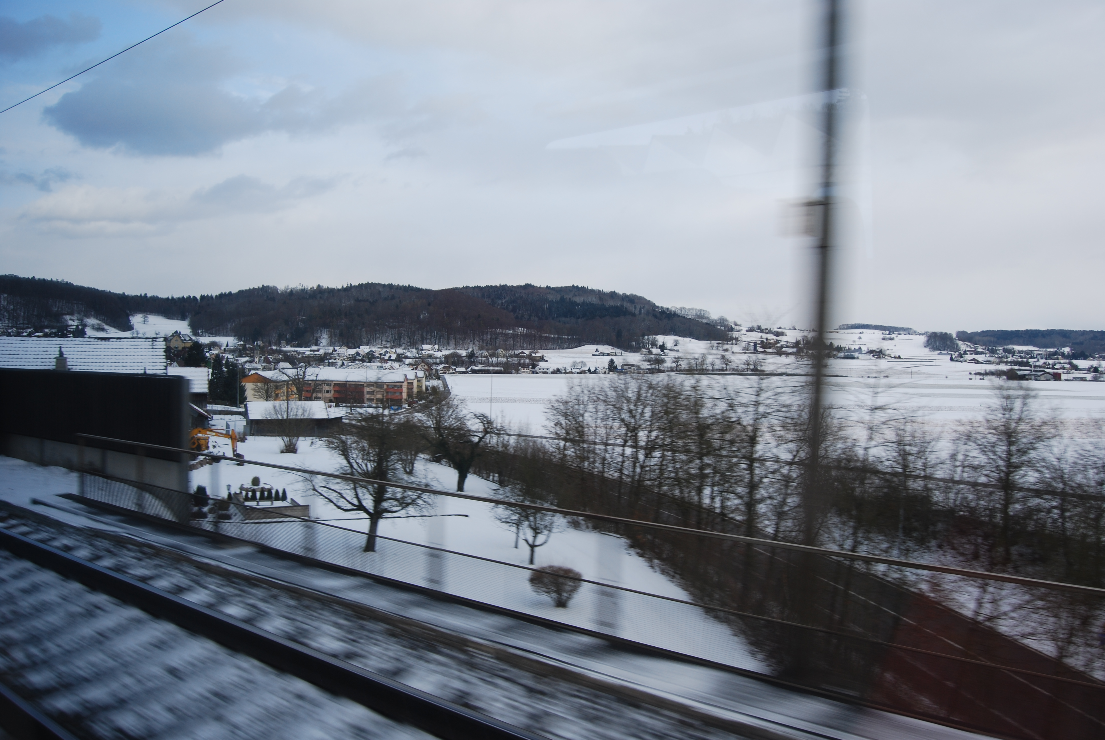 Othmarsingen seen from train, canton of Aargau, SwitzerlandEsperanto: Othmarsingen vidita el la trajno, Kantono Argovio, Svislando